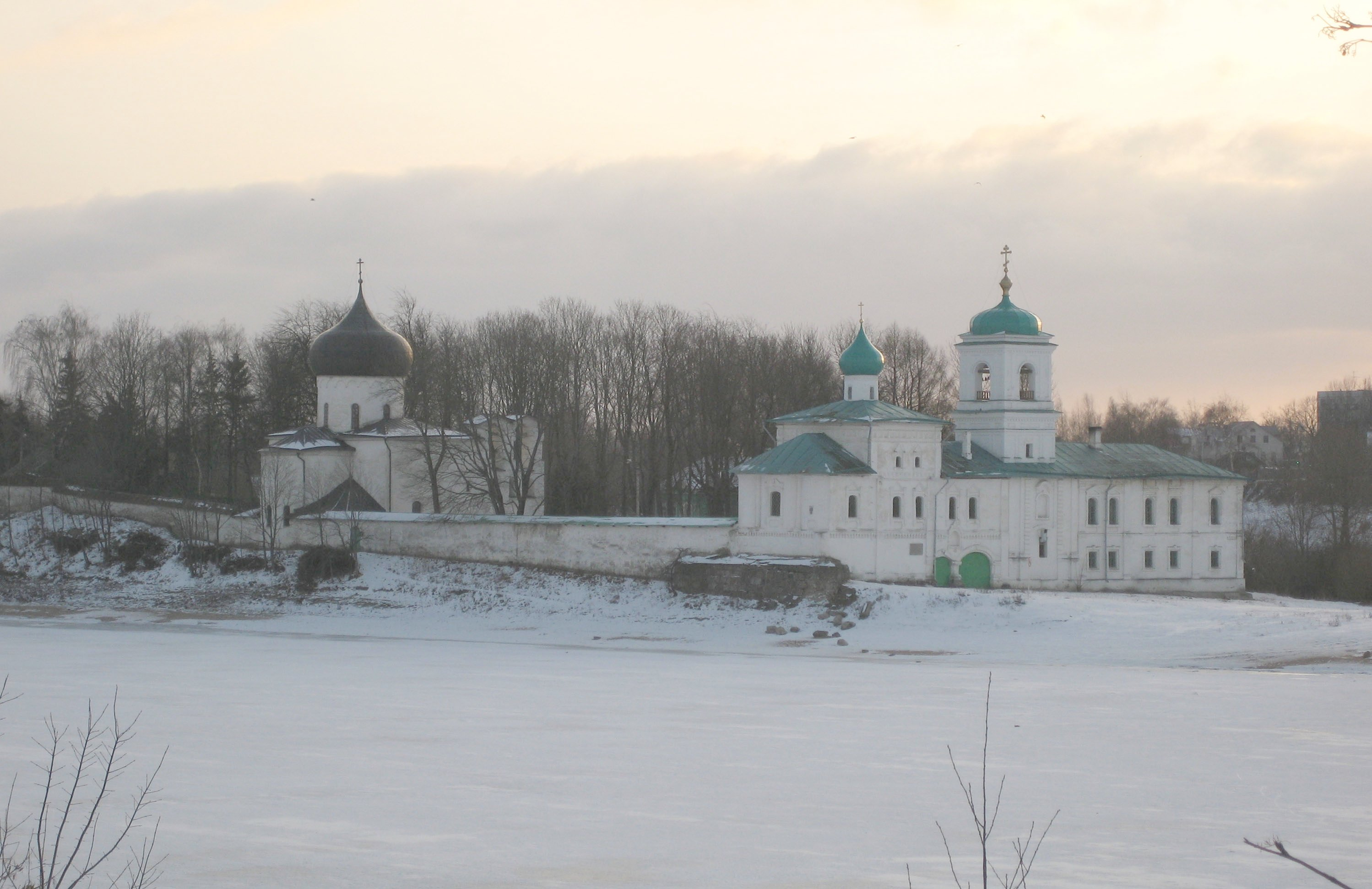 Monastery of Mirozh. View from the other bank of Velikaya river